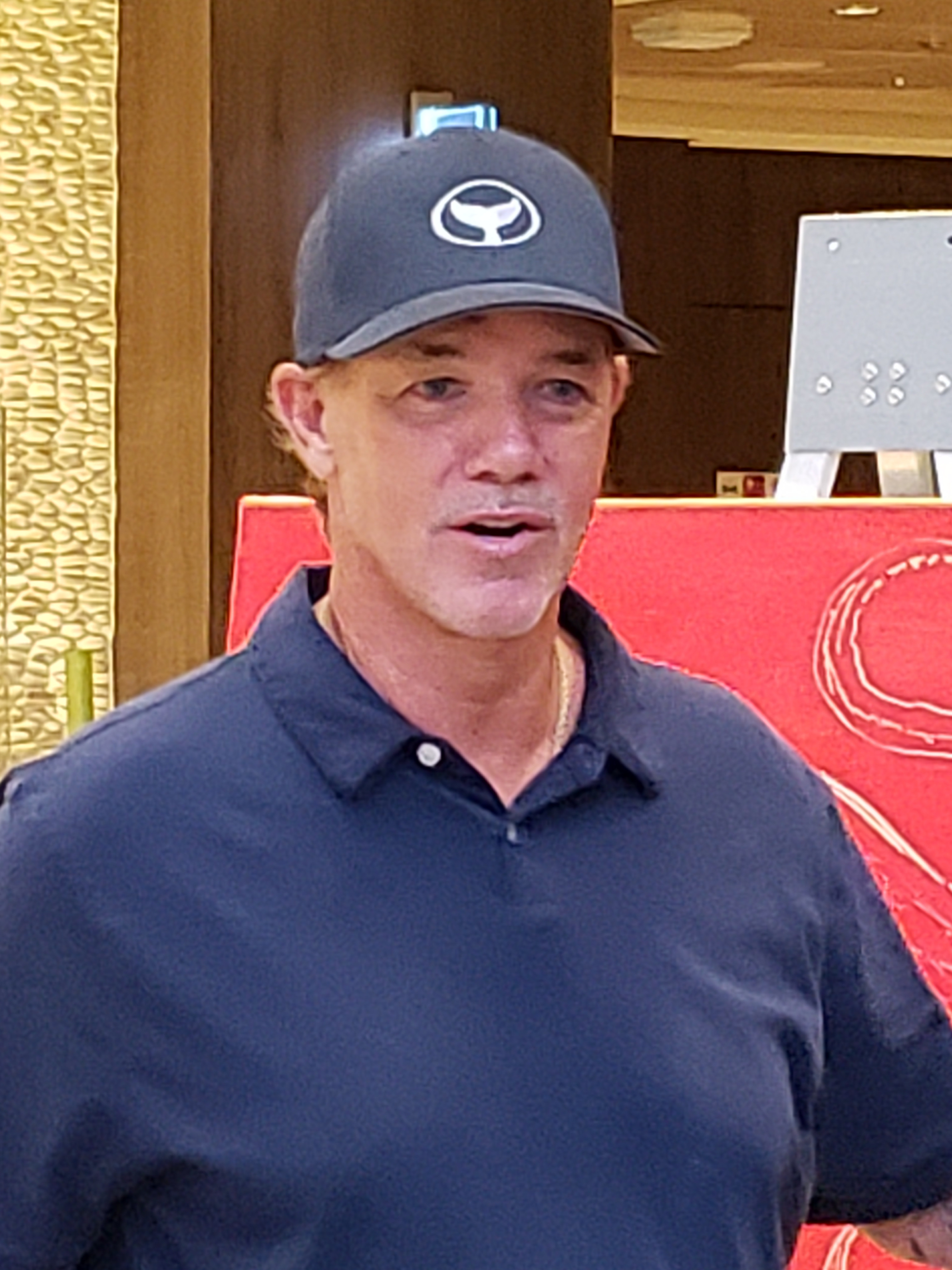 Wyland on the Norwegian Bliss